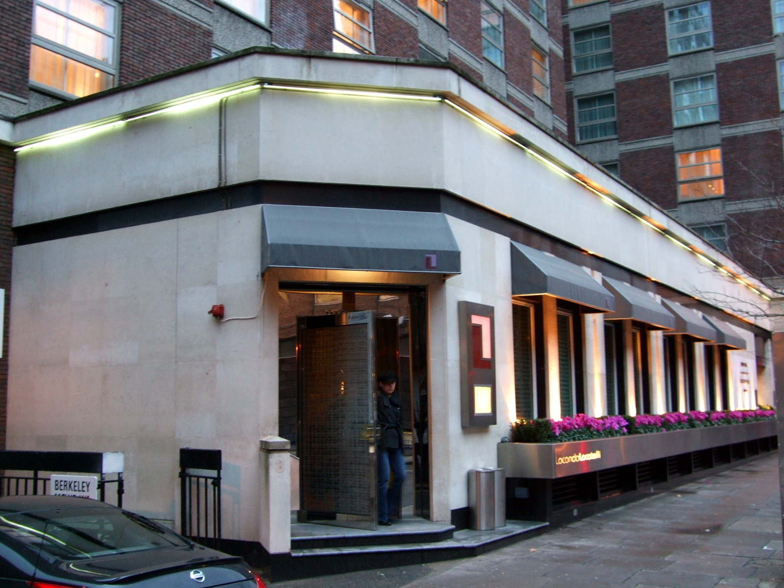 A feted Italian restaurant in Marylebone. Address: 8 Seymour Street